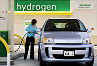 Honda FCX